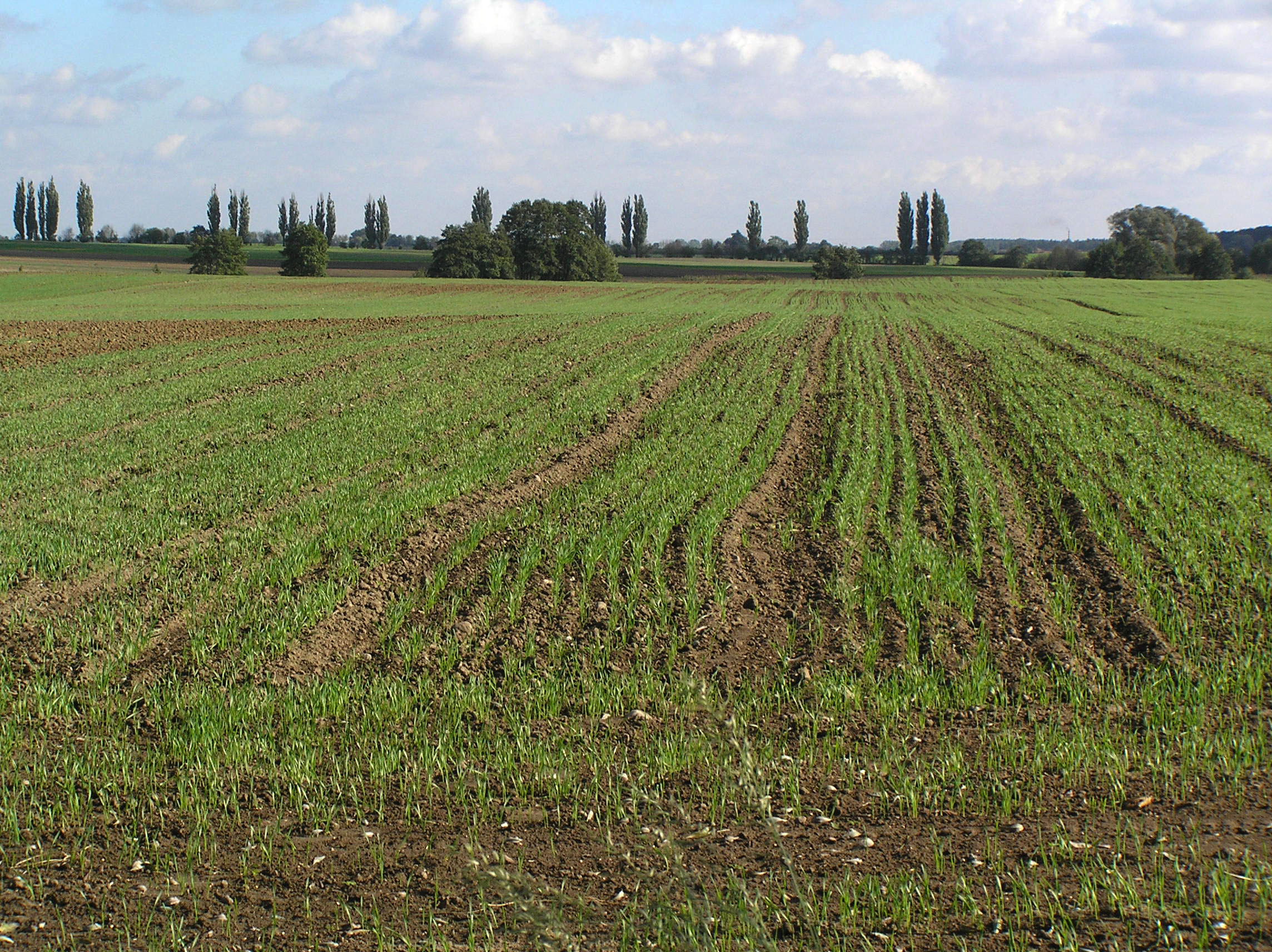 Fields in Lulkowo village (Toruń county)